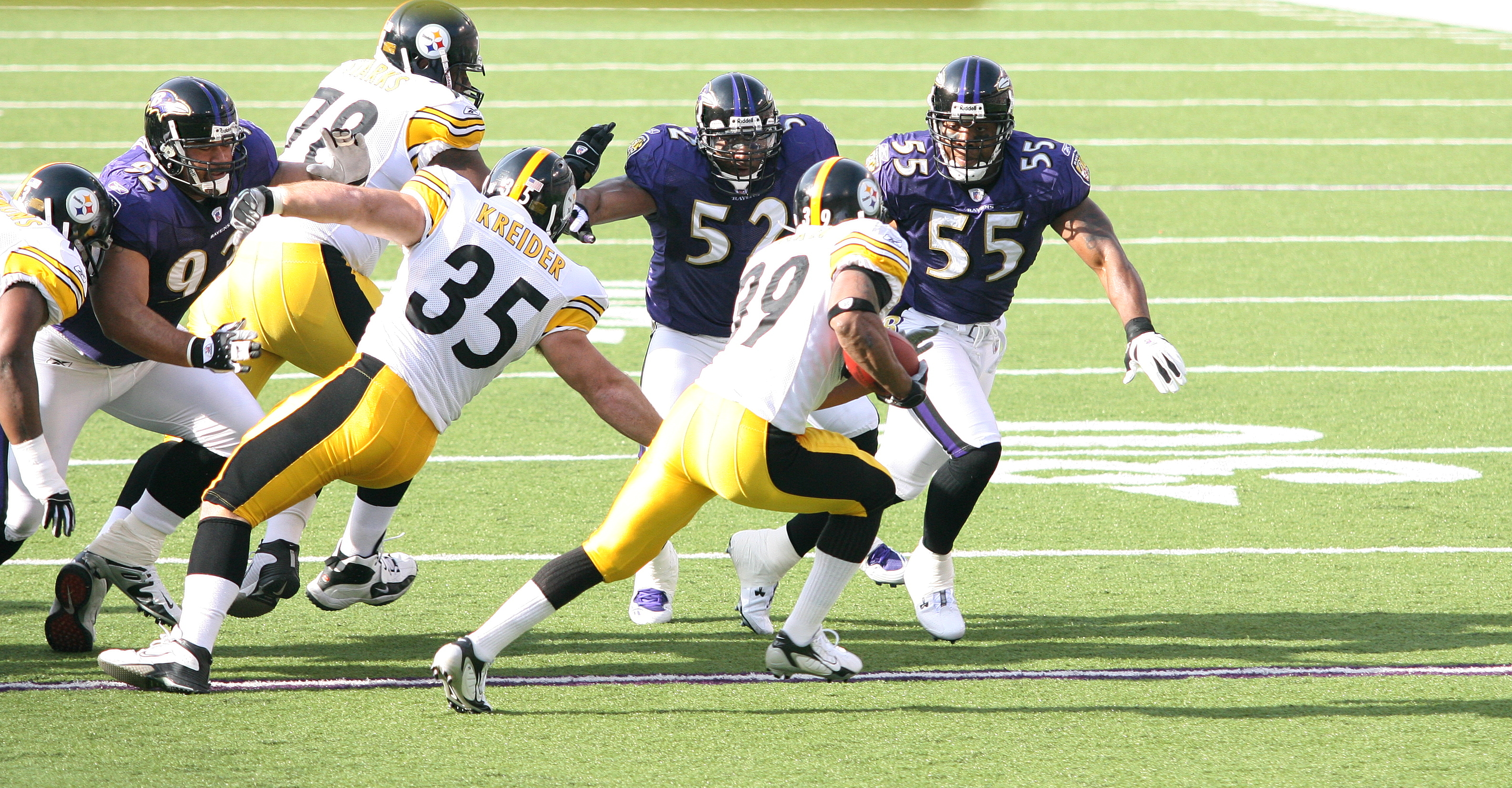 Willie Parker runs the ball while Dan Kreider and Max Starks block